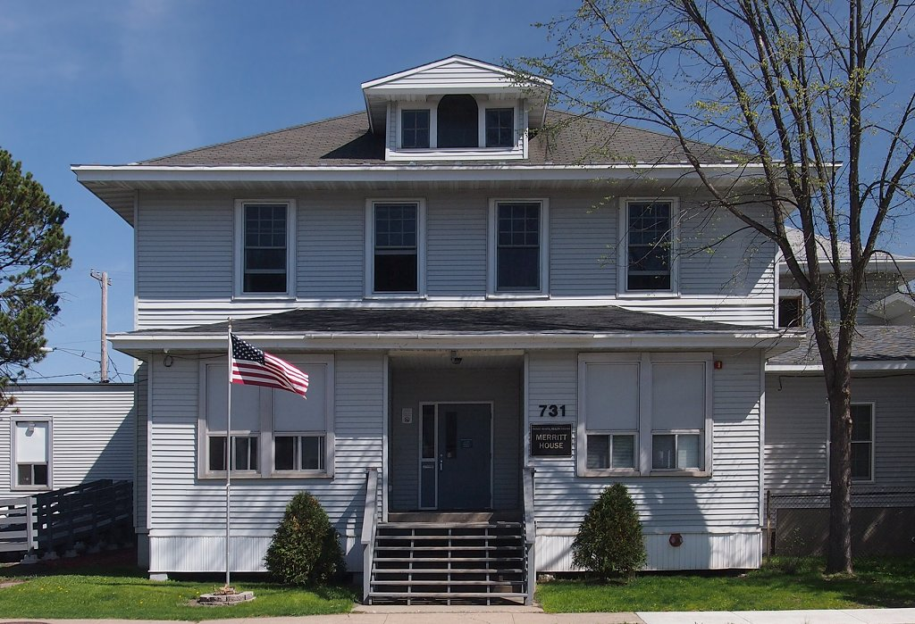 Virginia–Rainy Lake Lumber Company Office (now the Merritt House mental health center), 731 3rd Street S, Virginia, Minnesota, USA. Viewed from the south.